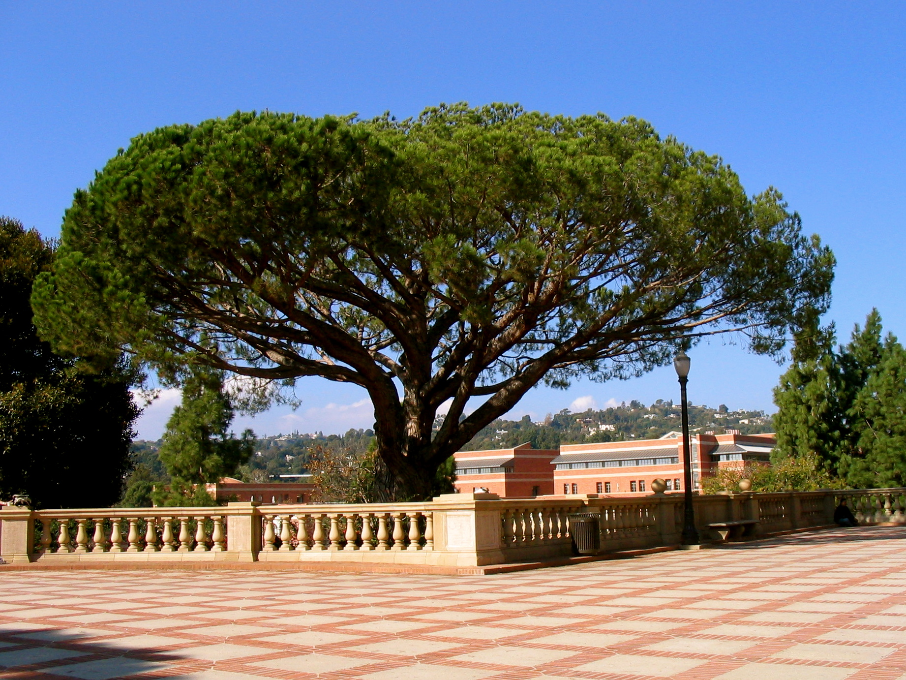 Stone Pine (Pinus pinea) and terrace — on the UCLA campus.